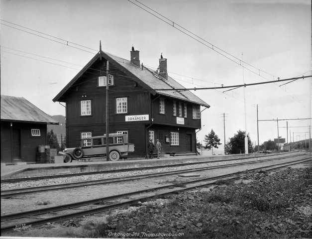 Orkanger railway station on Thamshavnbanen in Orkdal, Norway.